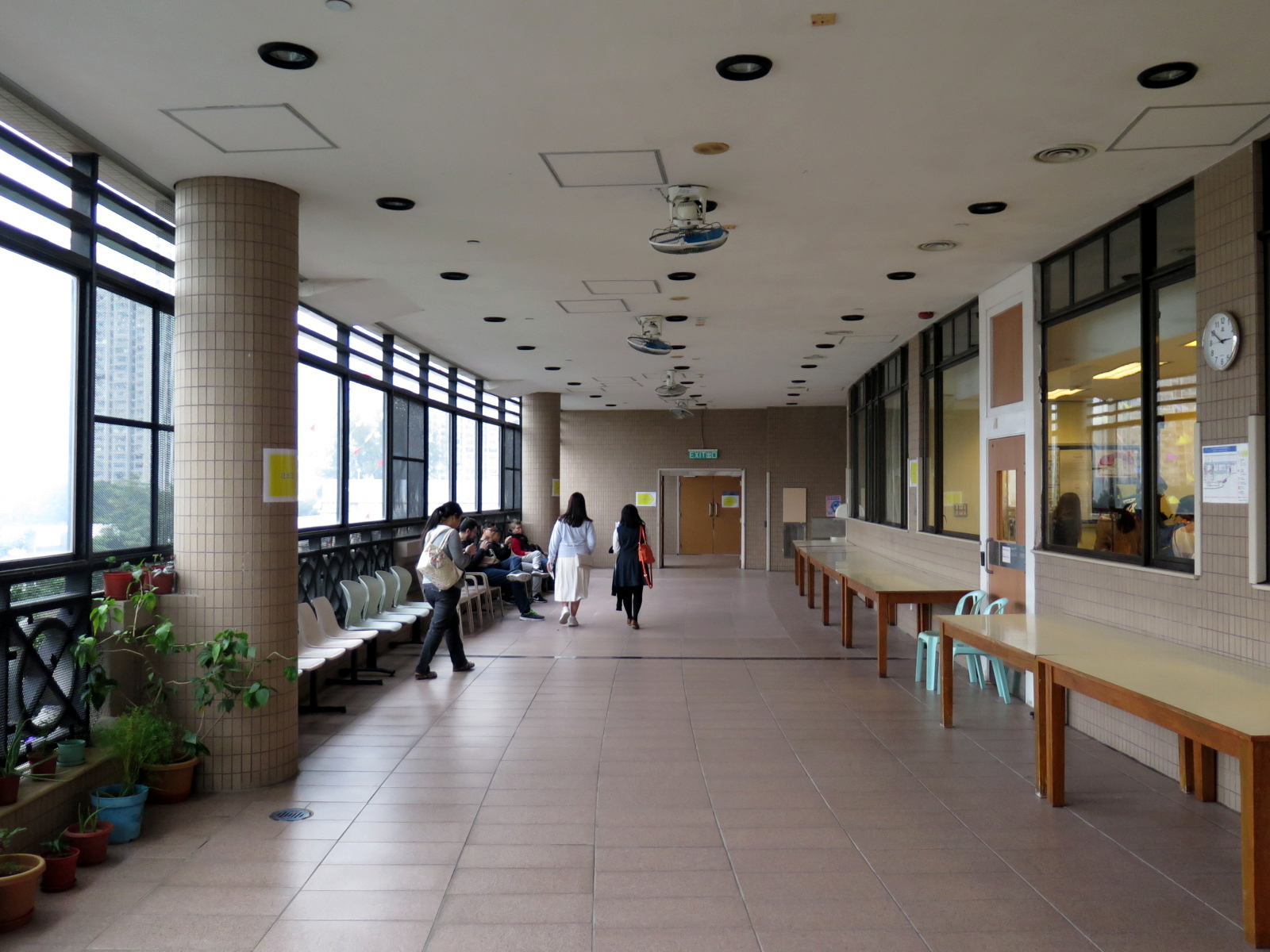 Castle Peak Hospital Block D Level 3 Balcony